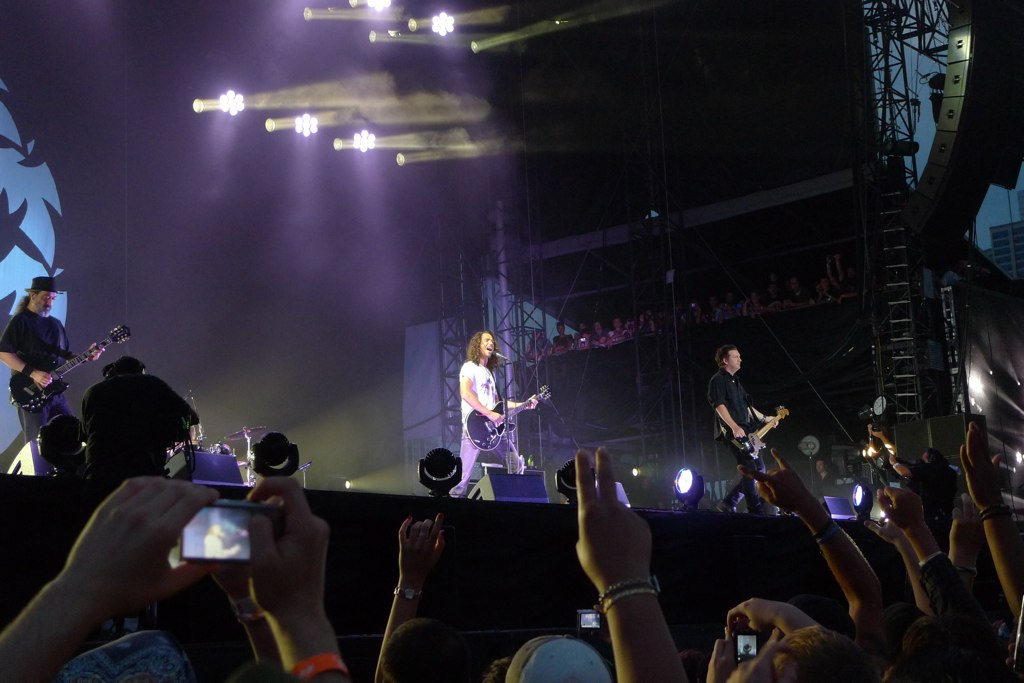 Soundgarden performing at Lollapalooza in Chicago, 2010. L-R: Kim Thayil, Chris Cornell, and Ben Shepherd.